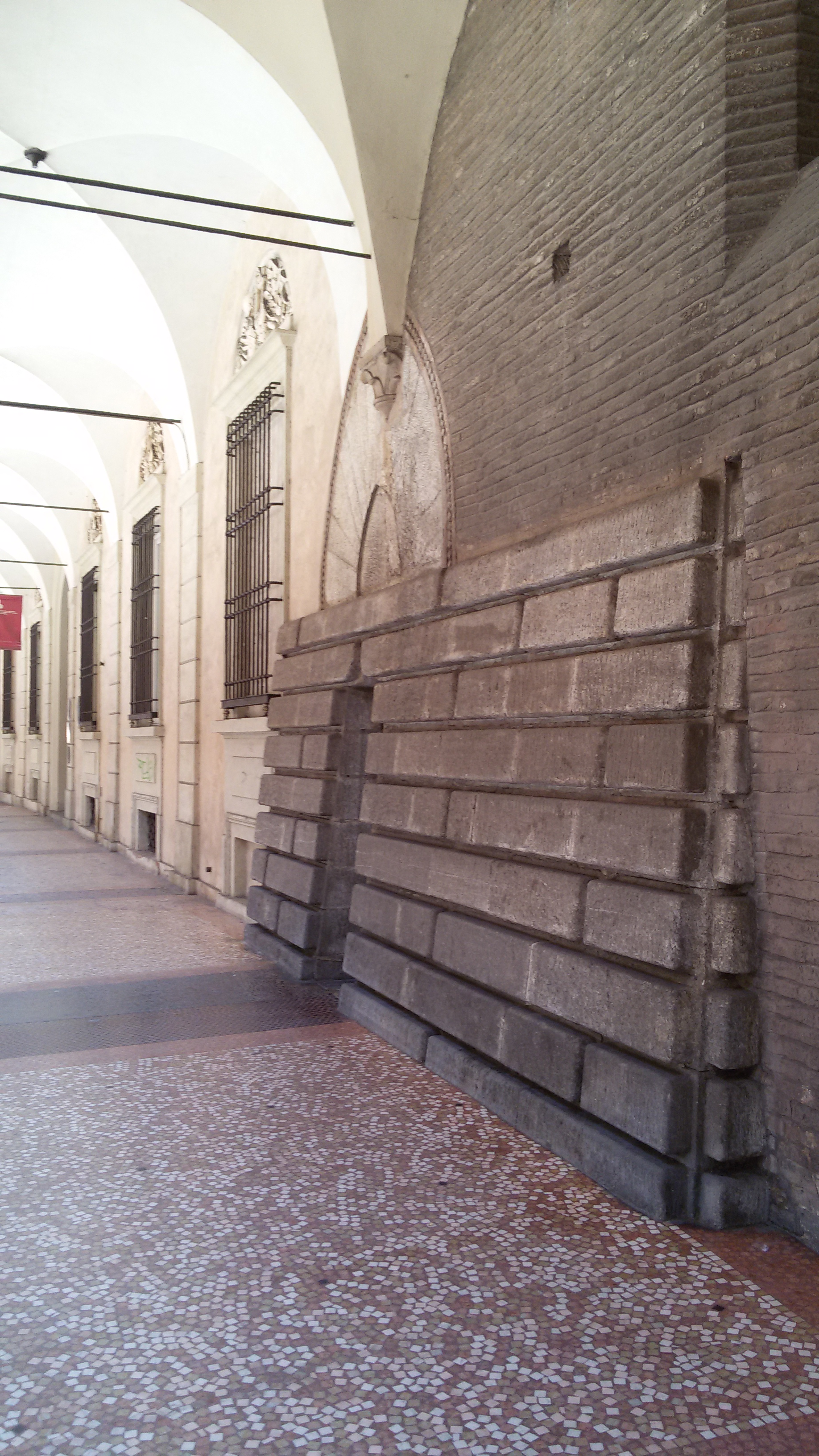 Image of Oseletti's Tower